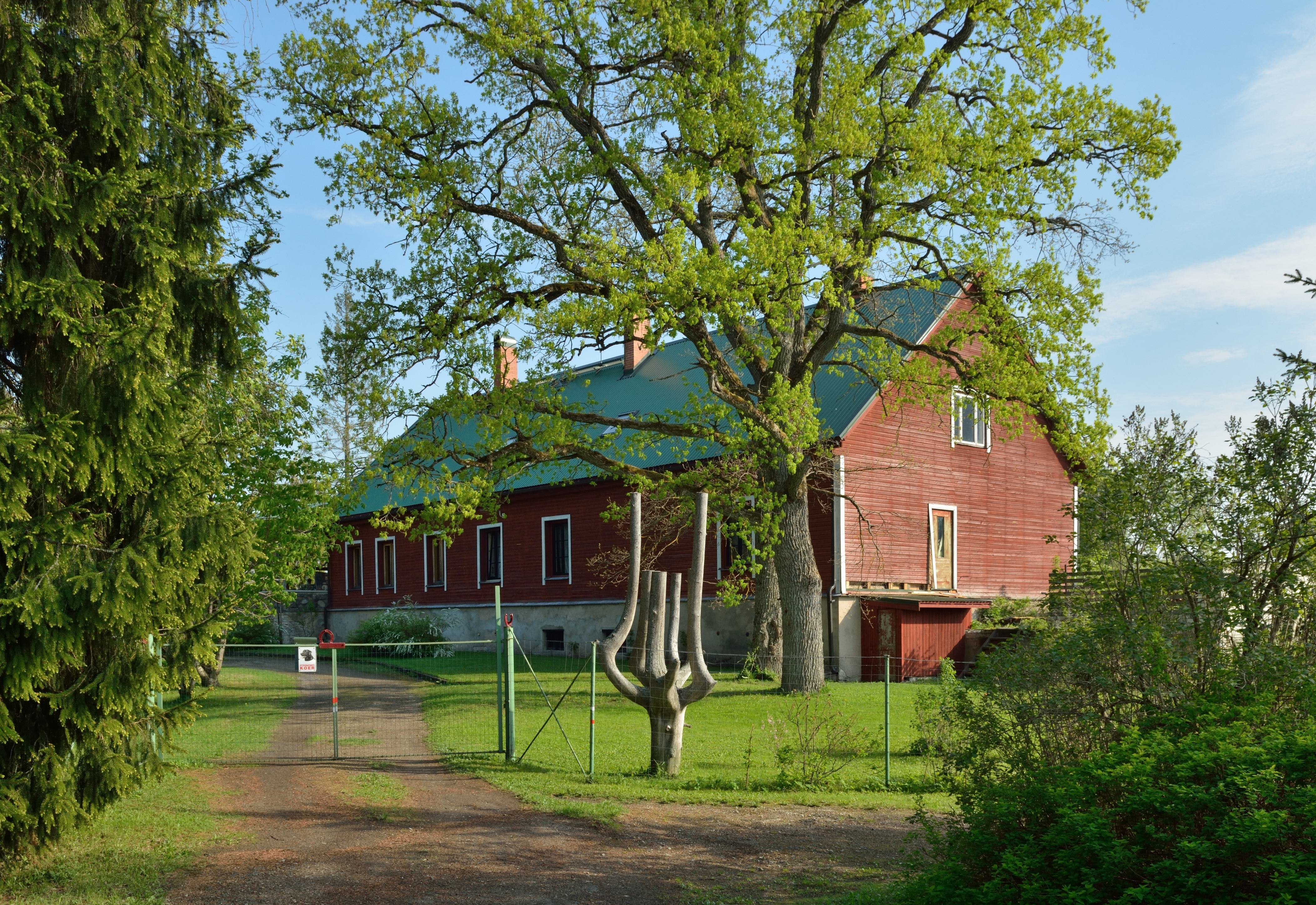 Lammasküla manor main building